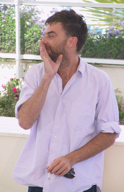 Anderson, Paul Thomas at Cannes in 2002. My own picture. Created by Rita Molnár 2002.